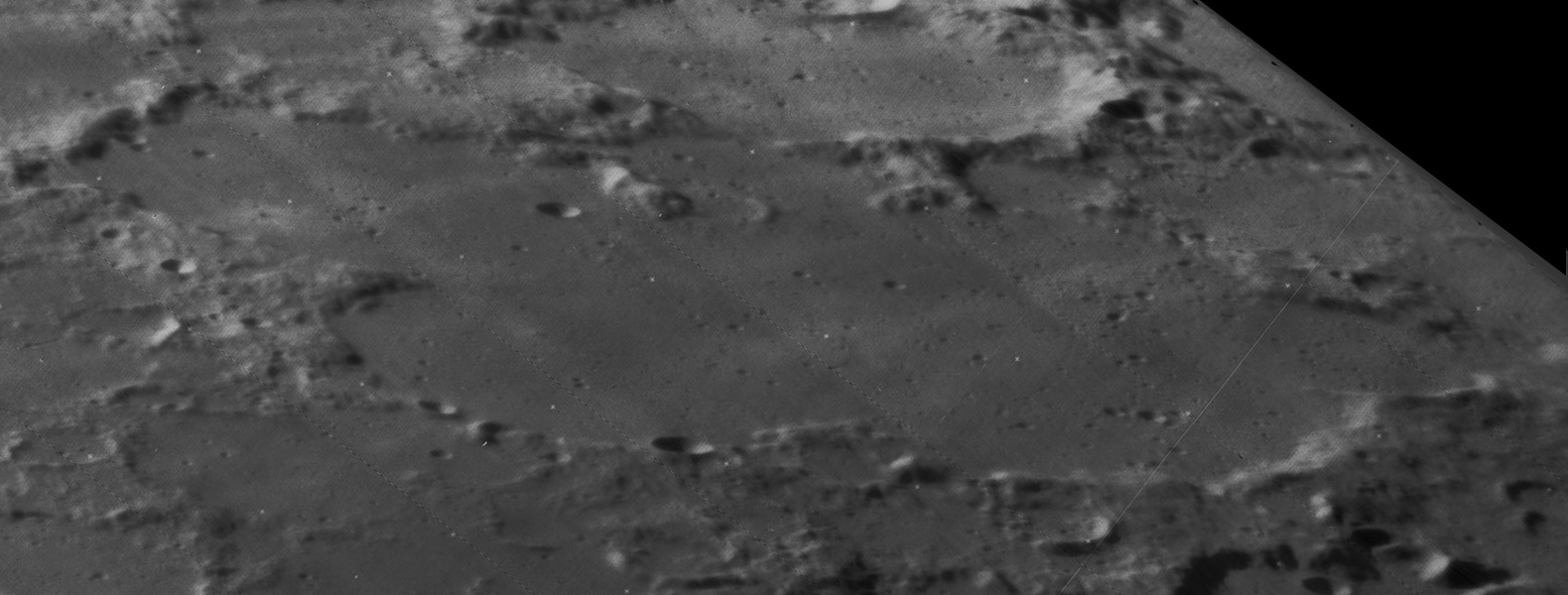 Oblique view of Meton, facing west, on the moon. Meton is below right of center, Meton D is below left of center, Meton C is in upper left, and Meton E is at right. They are all flooded to the same elevation by mare lava, and the subtle ridges that divide these craters are not visible in this image. Barrow crater is in the background.